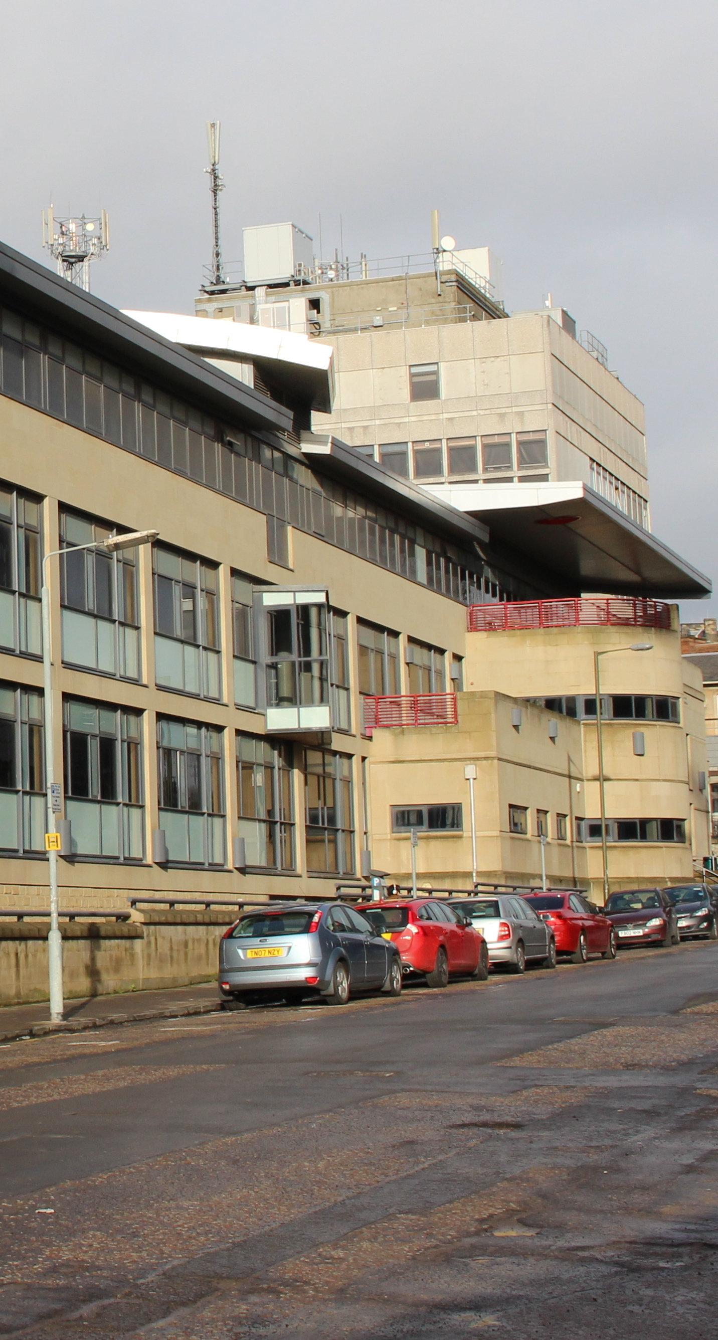 Princess Alexandra Eye Pavilion (Tall concrete 1960s building at the end of the street on the left)